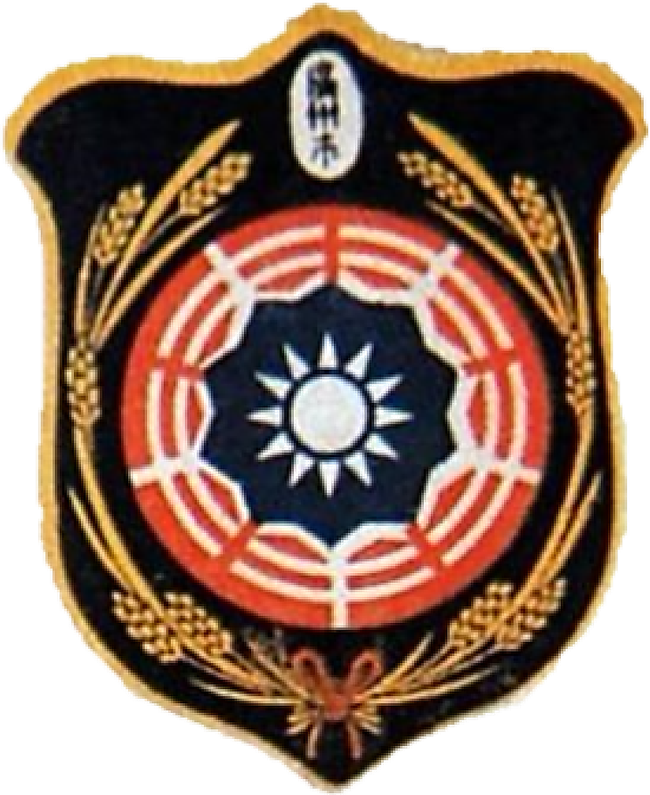 The city seal of Canton, Kwangtung Province, Republic of China (1926-1949).